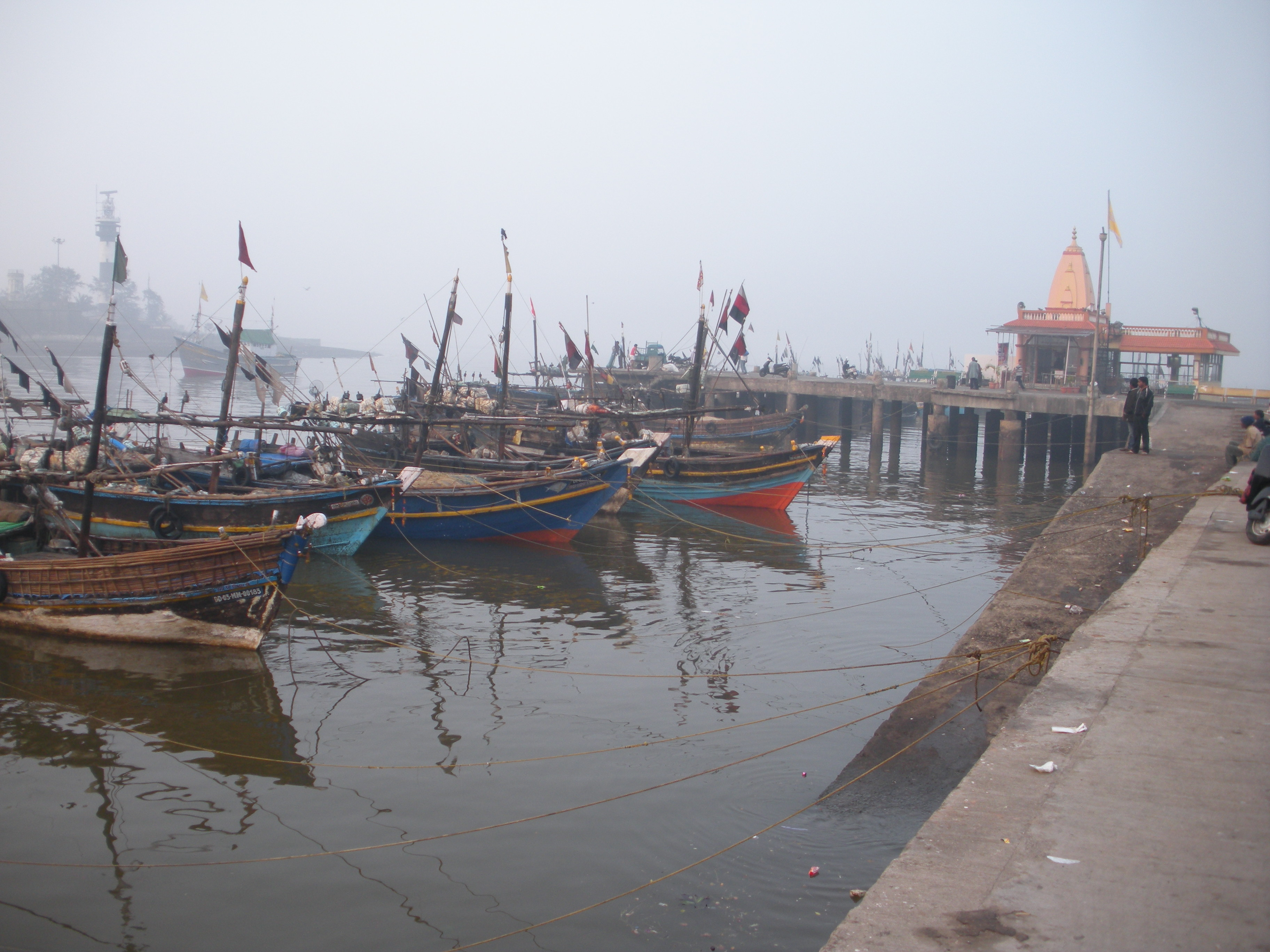 Daman Jetty, Daman Ganga River, Daman and Diu